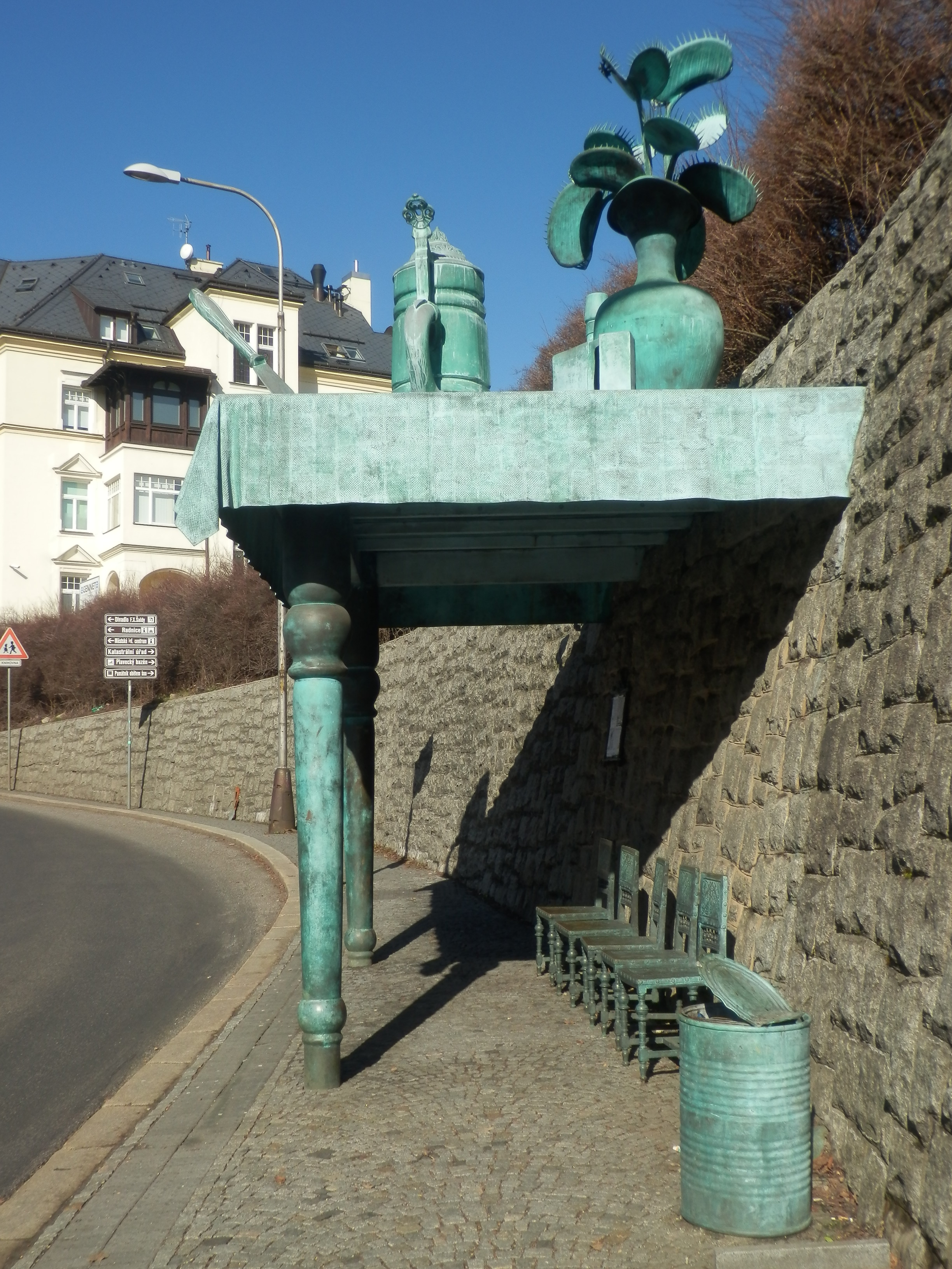 The feast of Giants Stop Liberec Czech Republic 5